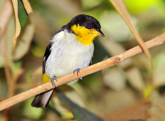 Hemithraupis flavicollis insignis, Brazil(?)